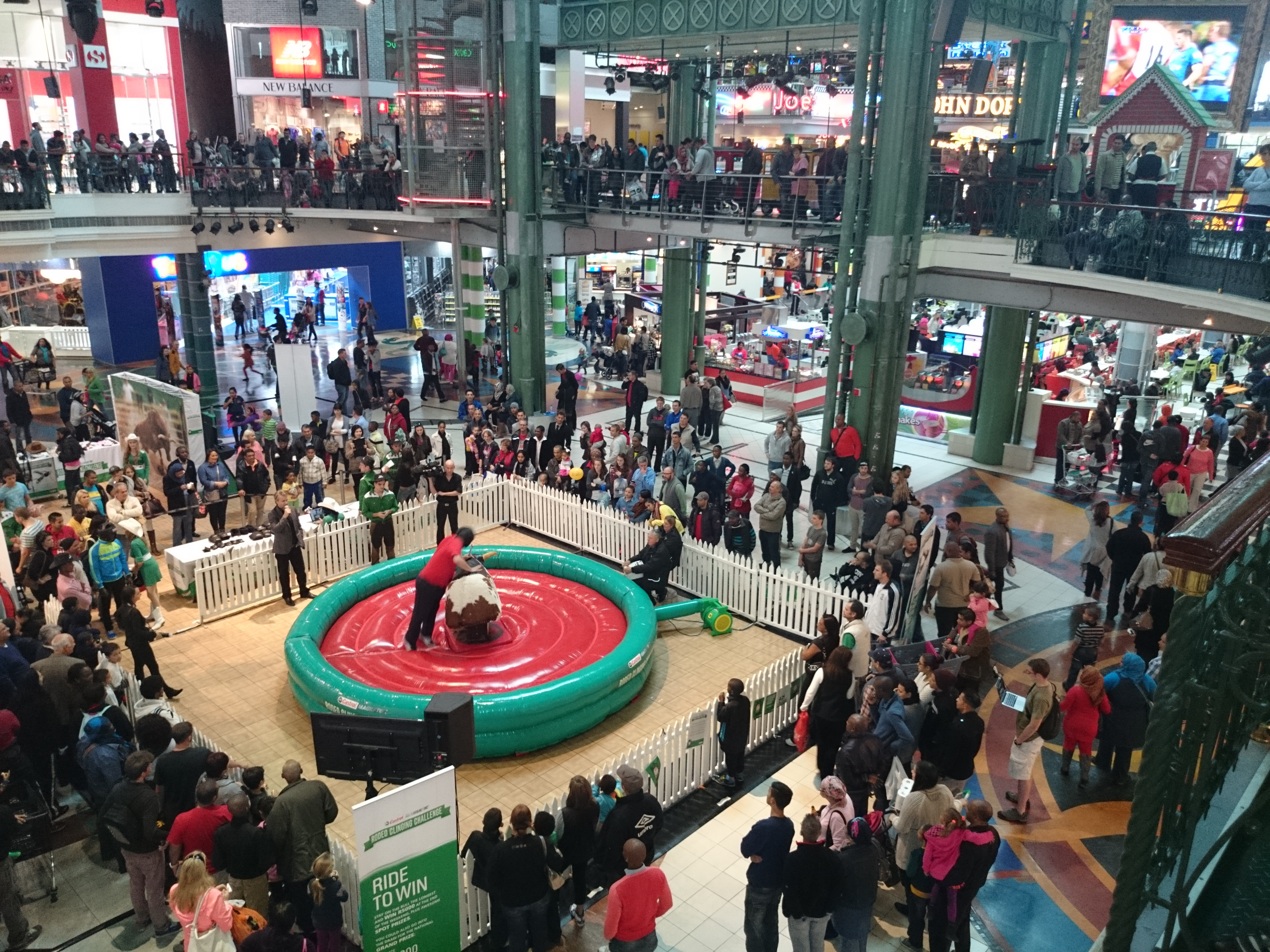 Canal Walk Central Promotion Court, where shows, events and videos are showed.